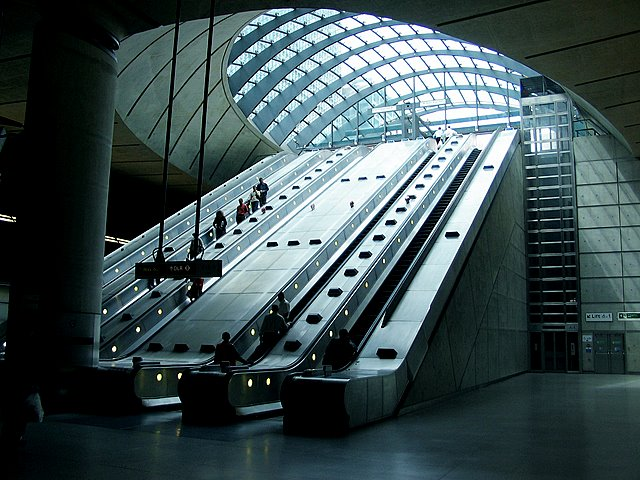 Canary Wharf Station - Escalators